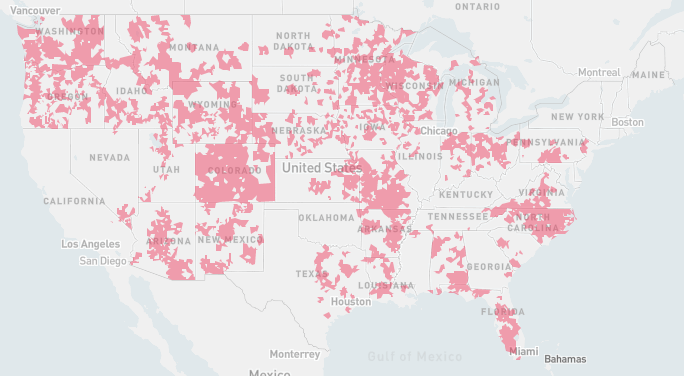 Map of the continental United States, with zip codes offering DSL internet coverage from Centurylink shaded in red.